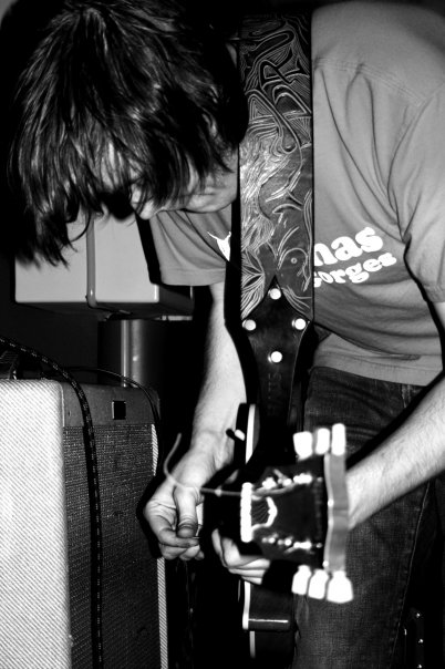 Took pic at venue.